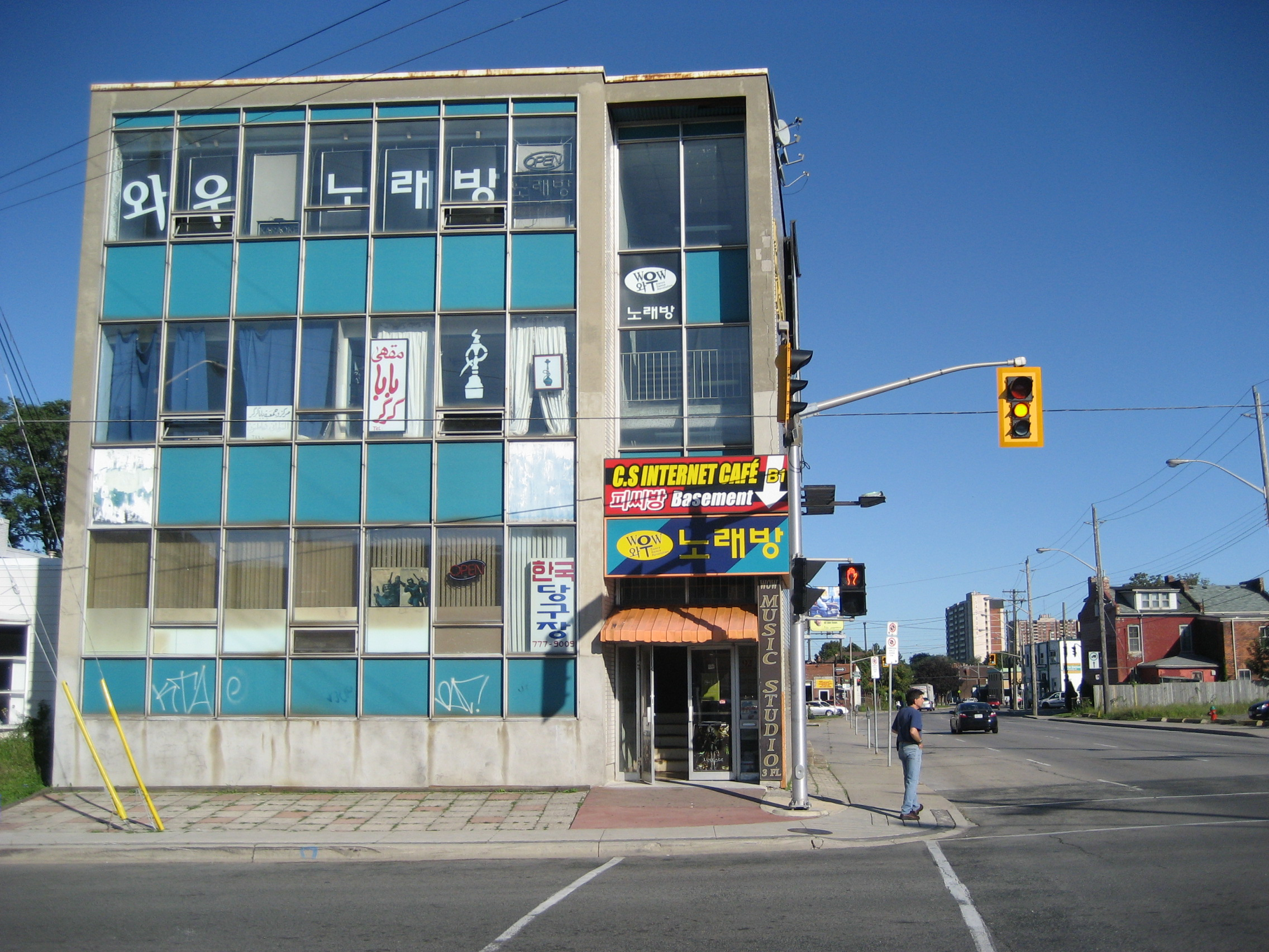 Wilson Street at Catharine, Hamilton, Canada.